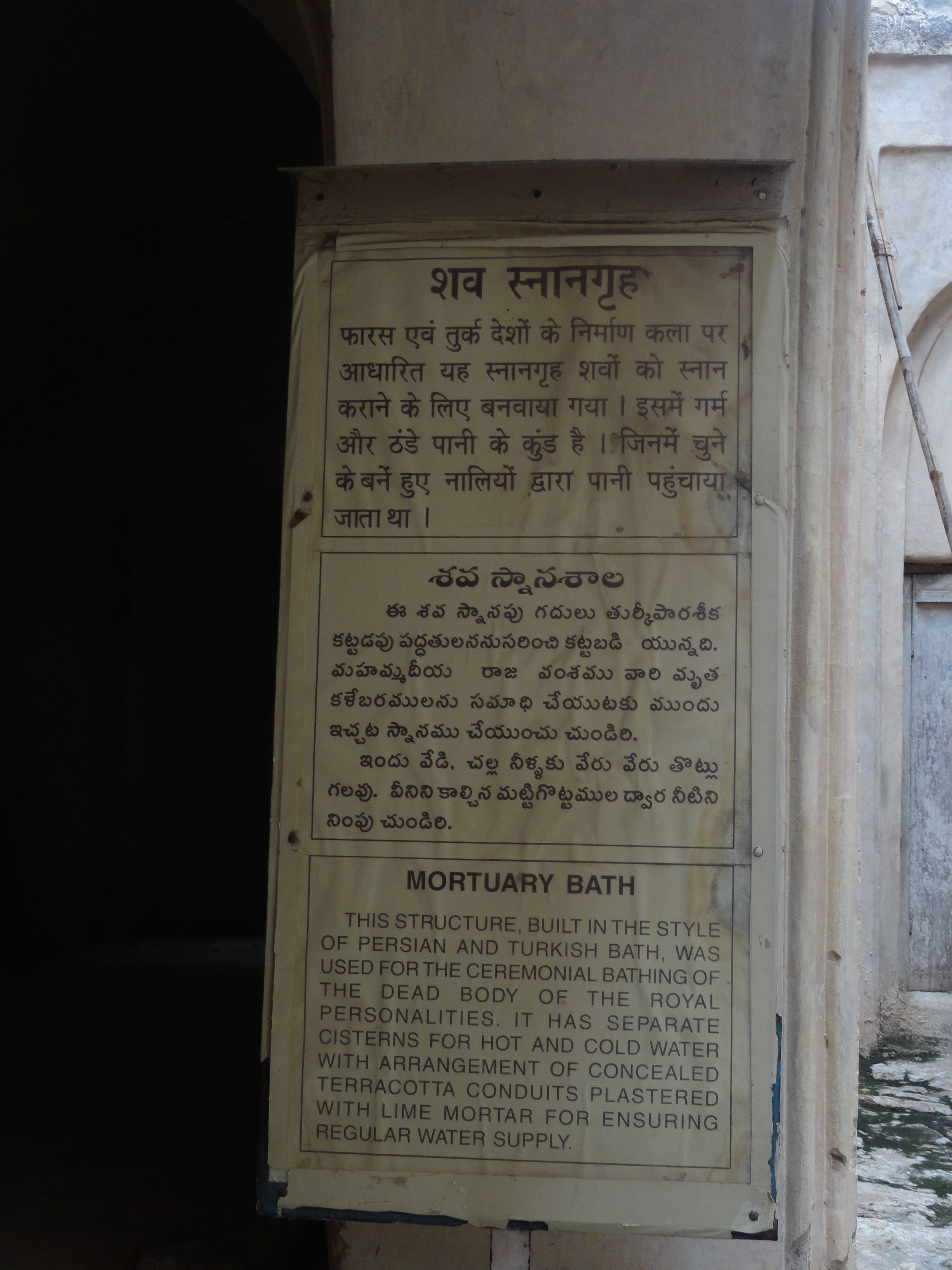 a board near main entrance of golkonda inner fort